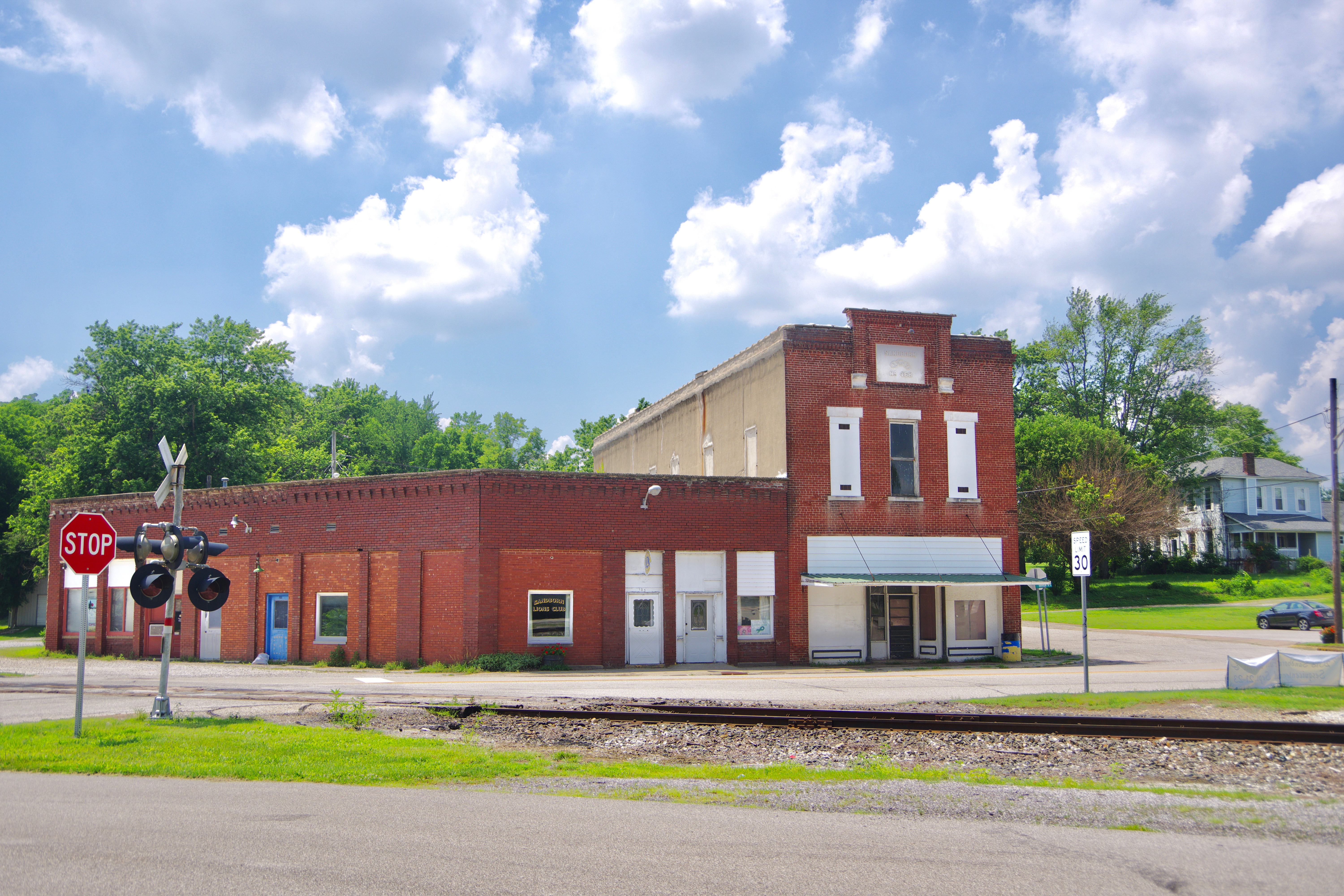 The Sandborn Lions Club and adjacent buildings along Anderson Street in Sandborn, Indiana, United States.